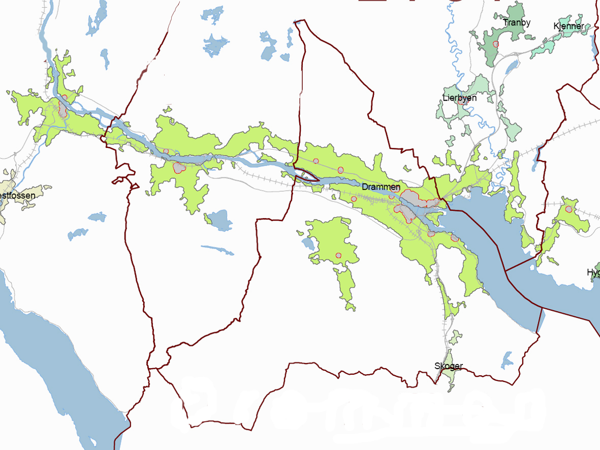 Map of urban area of Drammen in Norway